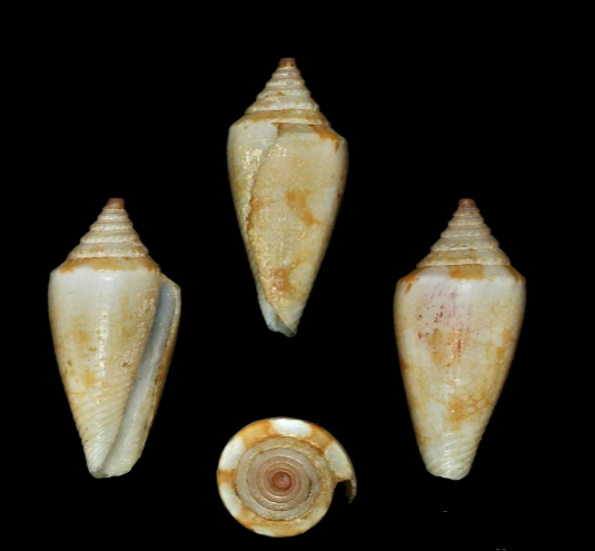 Conus textile Linnaeus, 1758; family Conidae; holotype of Conus dilectus at the Smithsonian Institution